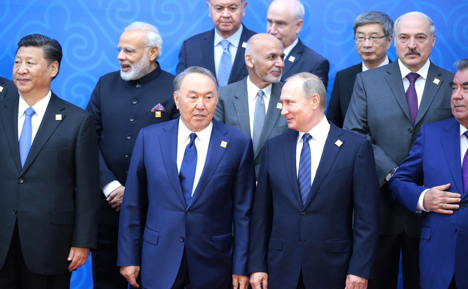 Participants in the SCO Council of Heads of State meeting in expanded format.